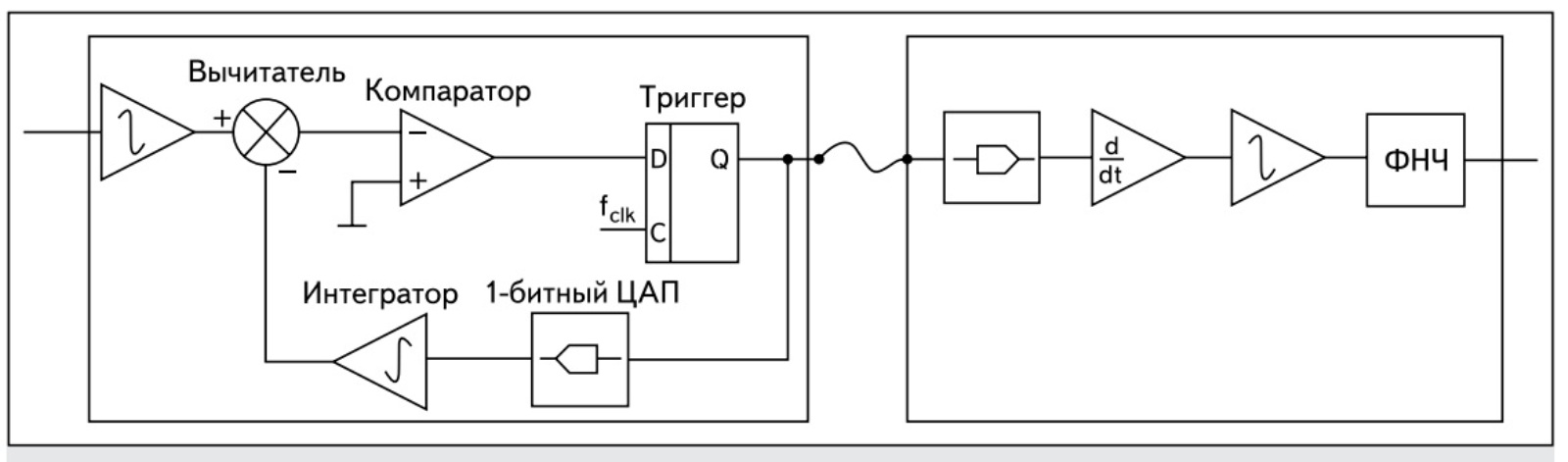 Переход от дельта-модулятора к дельта-сигма модулятору